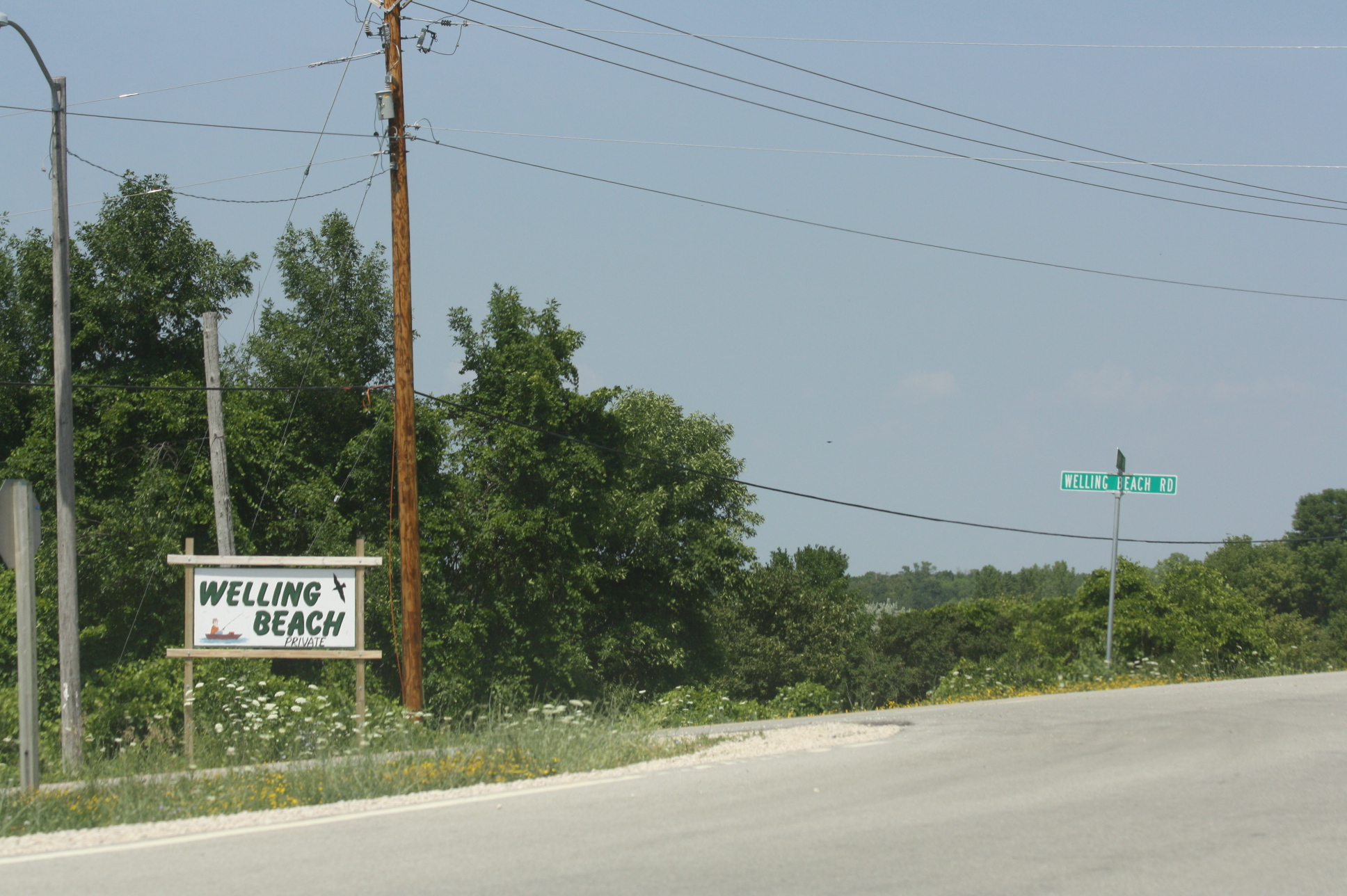 The sign for Welling Beach.